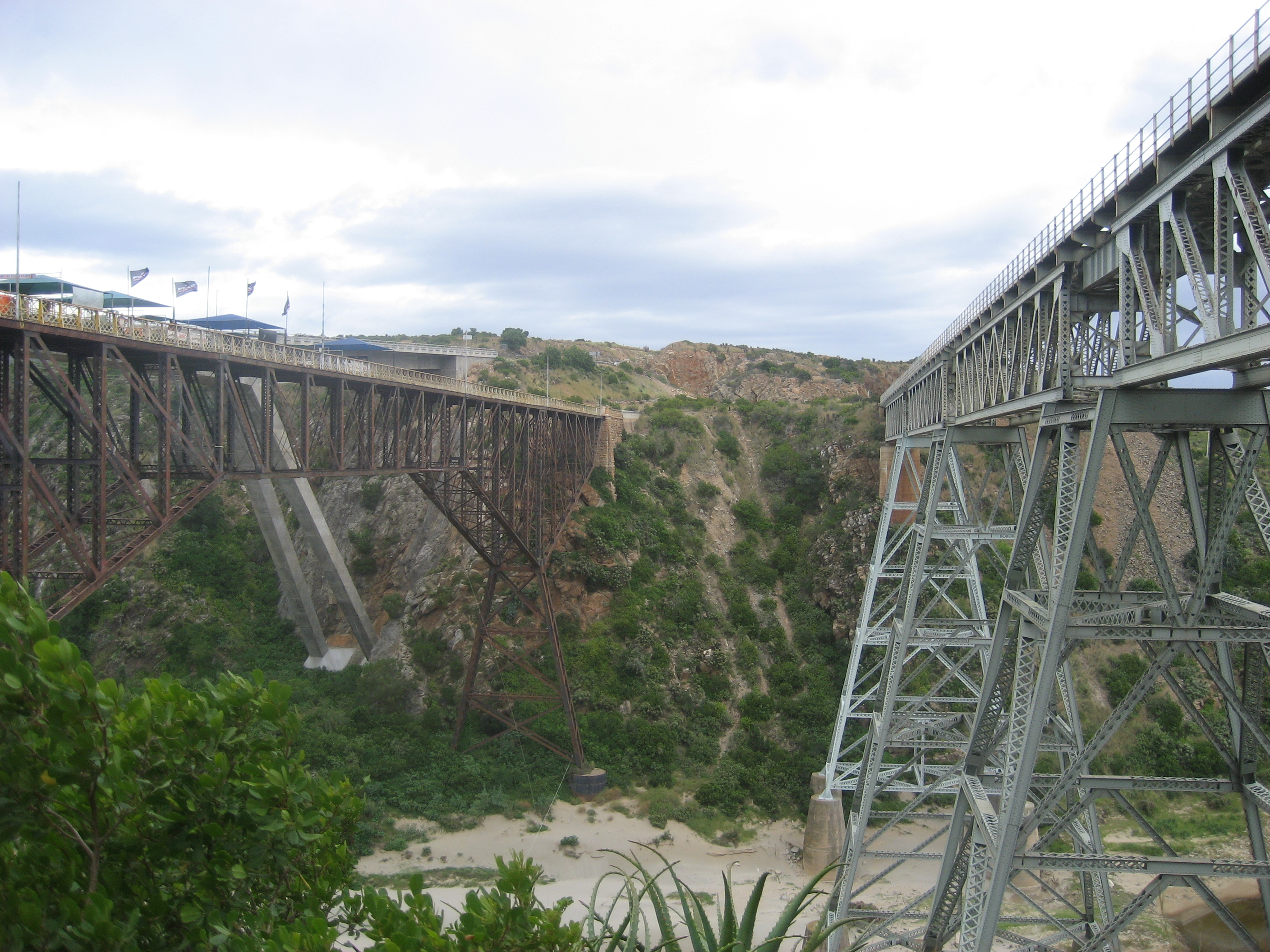 Gourits River Bridges, right: railroad steel bridge, left: historic rail&road steel bridge, left behind historic bridge: road concrete bridge